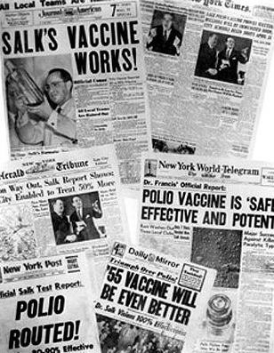 Photo of newspaper headlines about polio vaccine tests